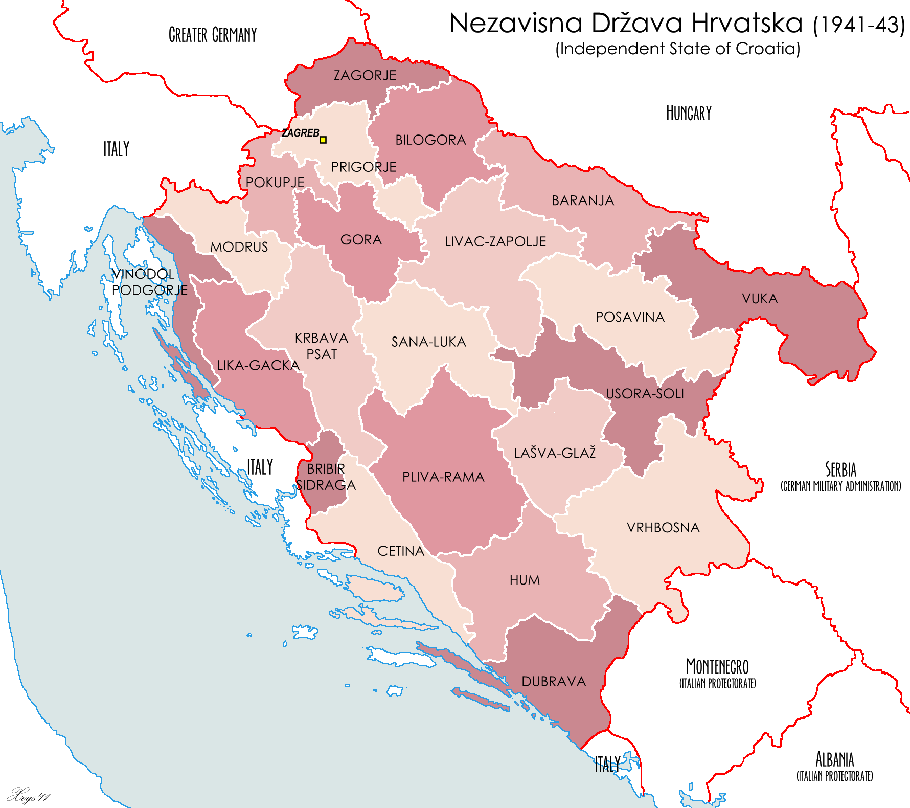 Administrative Map of the Independent State of Croatia (Nezavisna Država Hrvatska), 1941-43